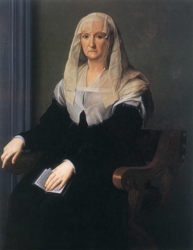 Portrait of Maria Salviati